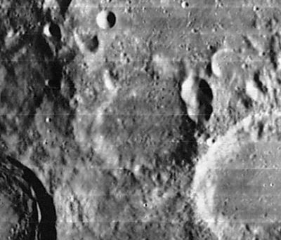 Lunar Orbiter IV image